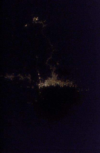 View of the City of Panama to the Rights and the city of Colon on the left, united by the Trans Avenue. At the bottom you can see the cities of Arraijan and Chorrera